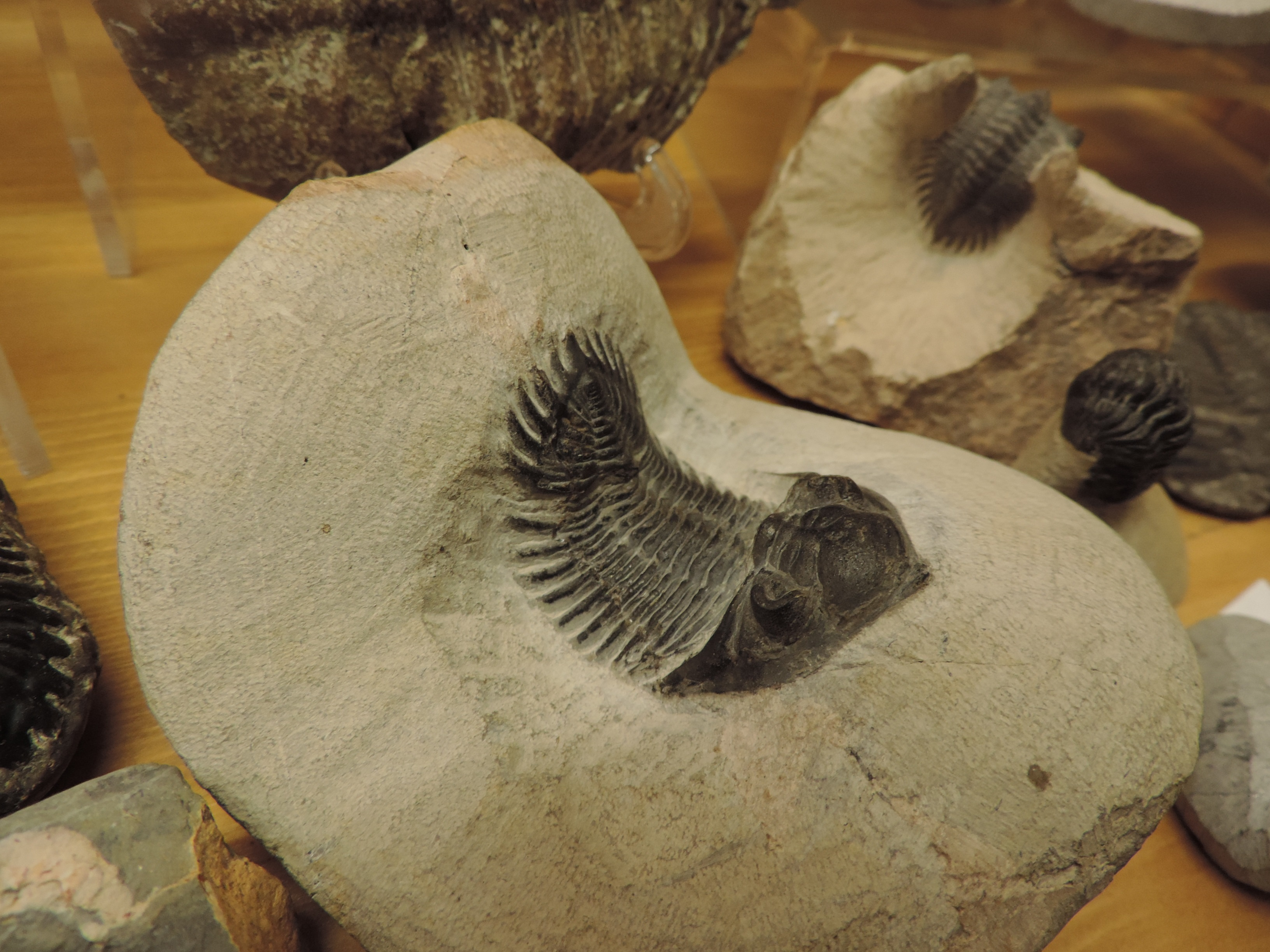 Fossil of Metacanthina from Devonian, found in Morocco. Fossil exhibition of "Paleontology for amateurs in Bulgaria" in the Regional Museum of Natural History in Plovdiv, Bulgaria.